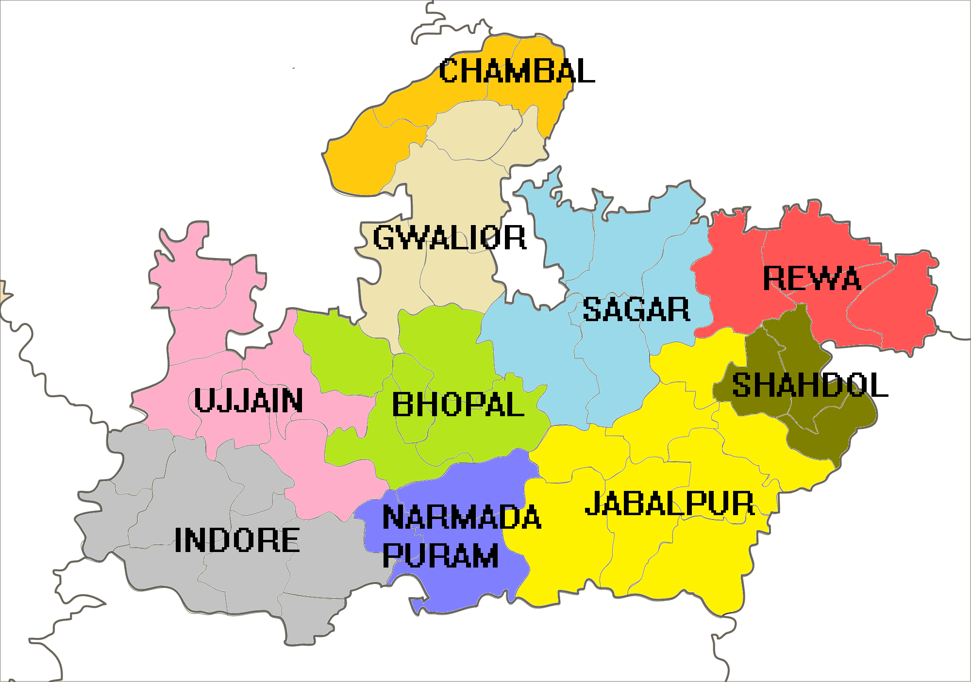 Administrative Divisions of Madhya Pradesh based on ː File:Madhya Pradesh districts location map big.svg